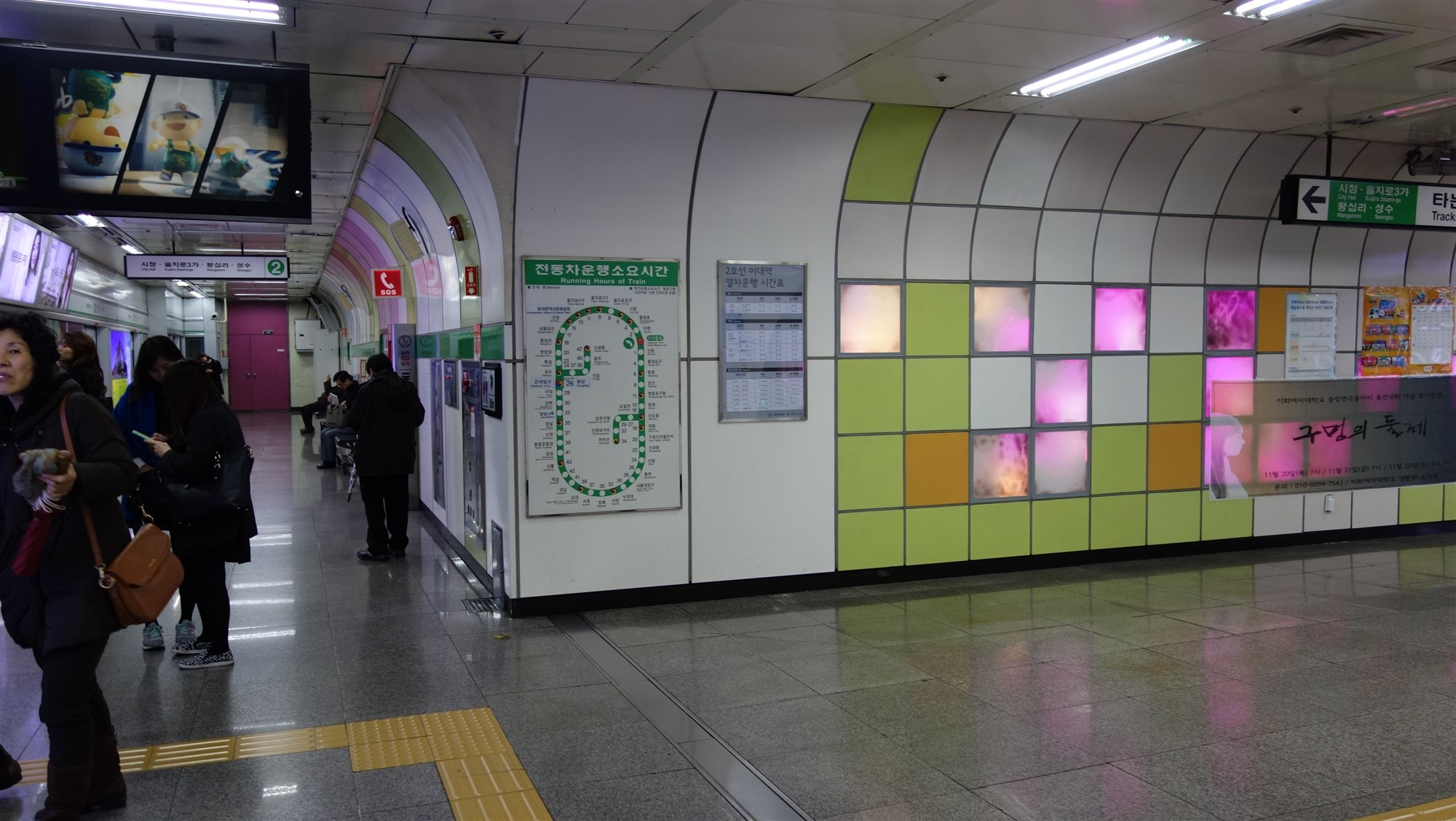 Wall art at Ewha Station, Line 2, Seoul, South Korea